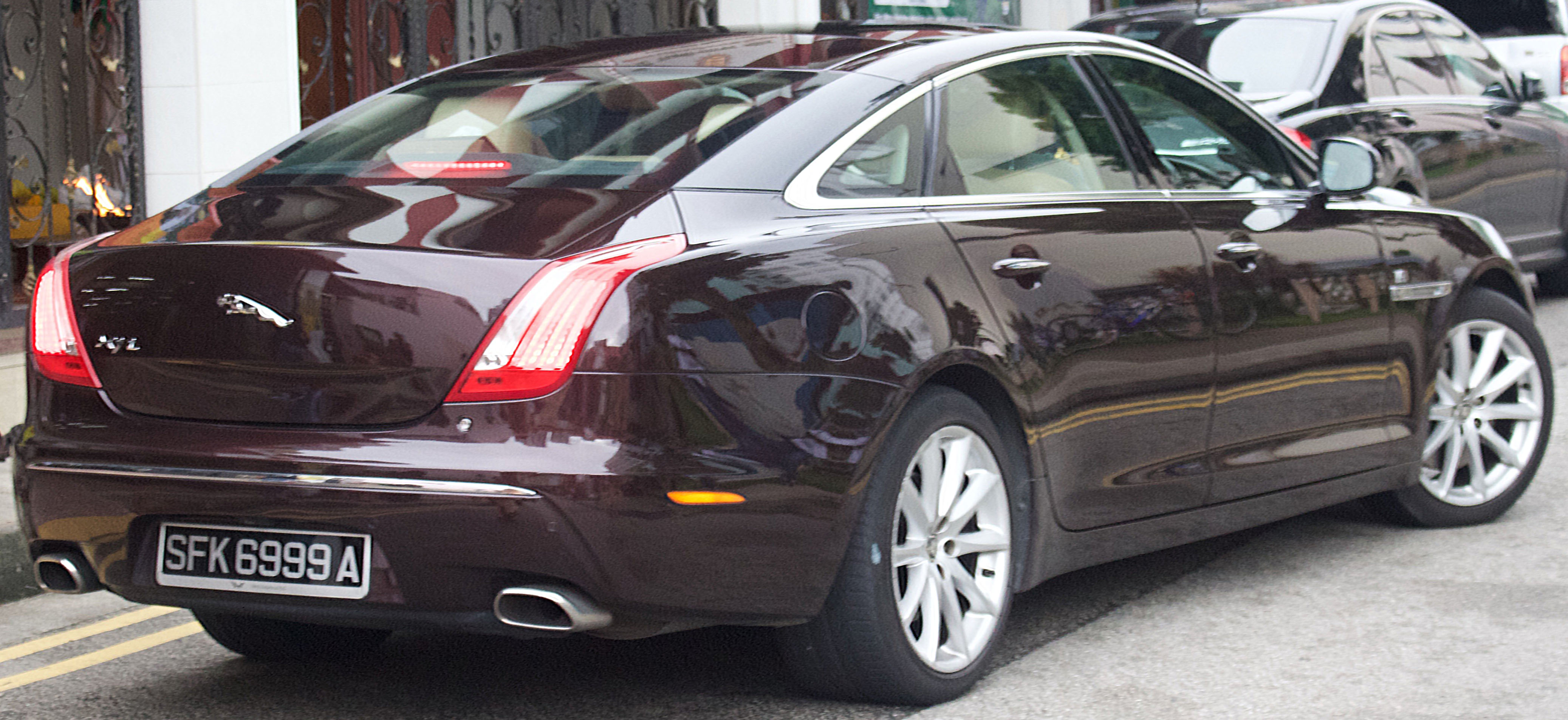 2010 Jaguar XJ (X351) 5.0 L sedan, photographed in Singapore. Vehicle registration enquiry results Jurisdiction Singapore Registration SFK6999A Chassis code SAJAC22F7ALV05284 Engine code 10031400512508PN Year of manufacture 2010